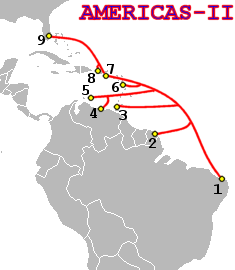 Route of the AMERICAS-II submarine communications cable. For more information regarding numbered landing points, see main article. Created by me using from data from: VSNL Int. Map (Flash only).